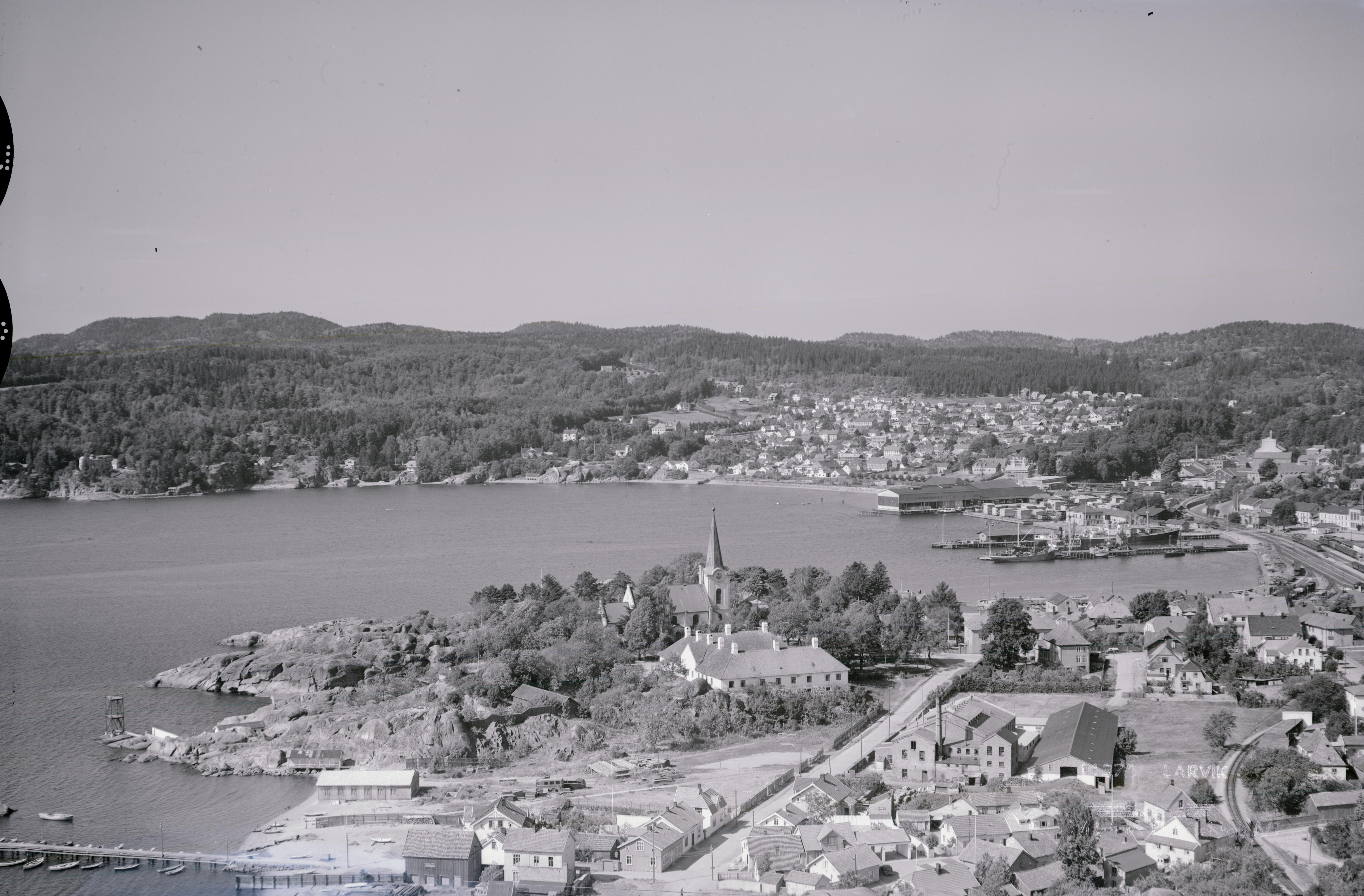 WF.HL.11375